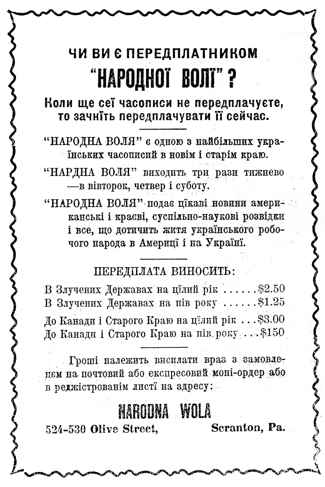 Advertisement for subscription to "Narodna Wola" a Ukrainian newspaper published in the US.